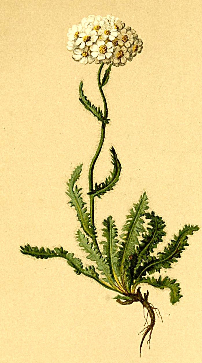 Achillea nana